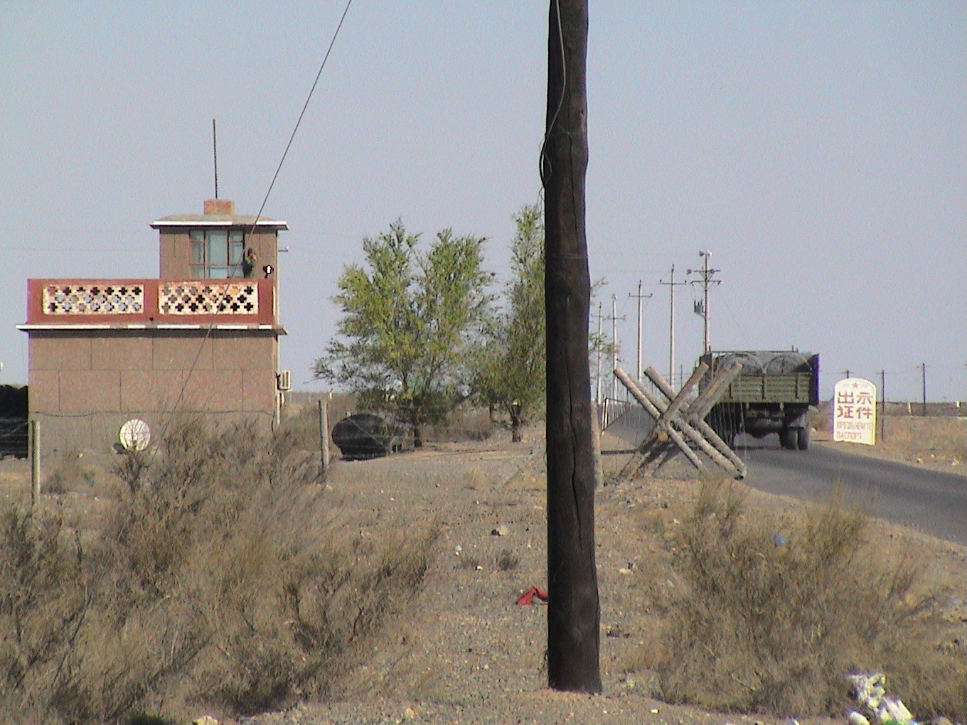 International border between China and Kazakhstan in Alataw Pass from China side.